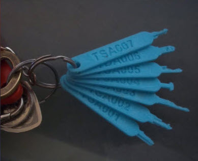 3D printed versions of reverse engineered TSA Travel Sentry master keys. Backstory available at (2015-09-08), (2015-09-09), and (2015-09-11).